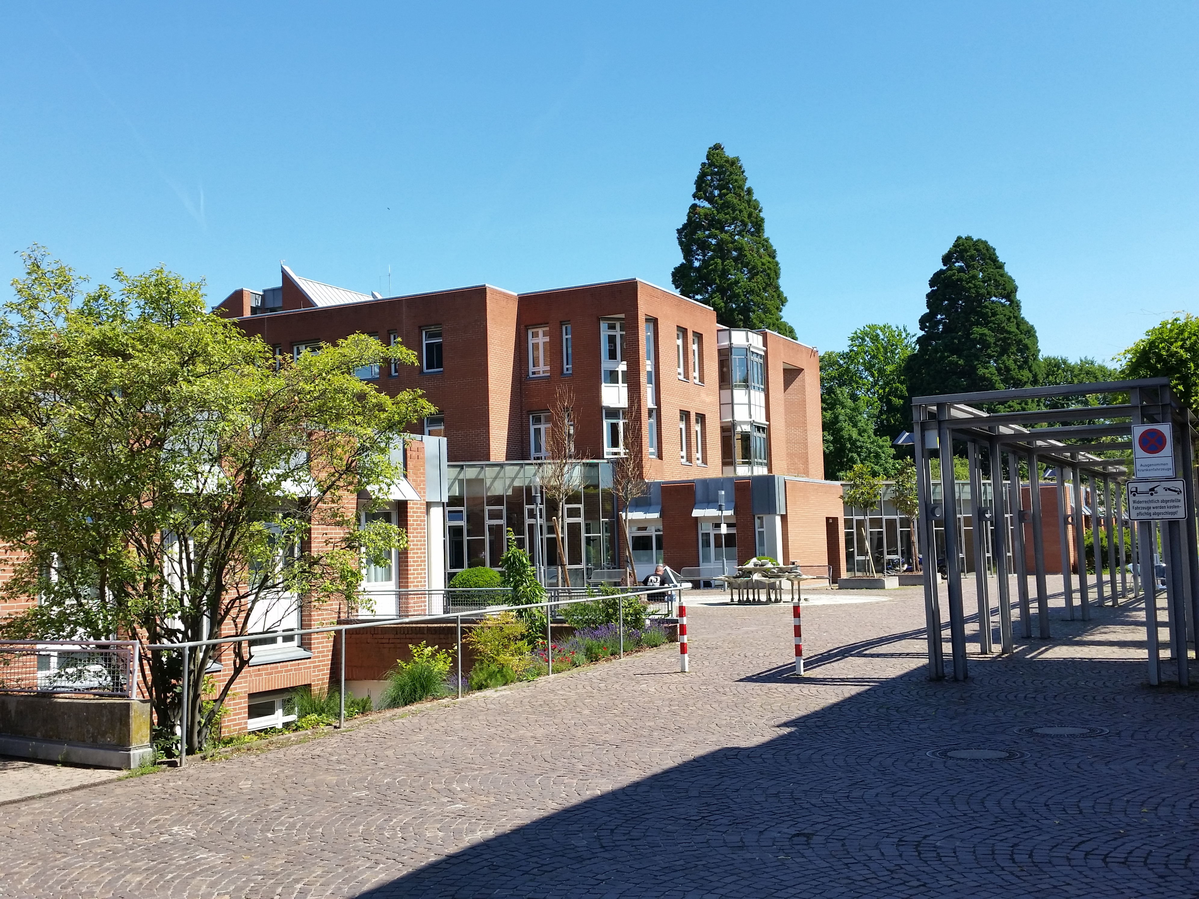 Zentralgebäude, Psychiatrisches Zentrum Nordbaden (PZN) in Wiesloch, Baden-Württemberg. Psychiatric Center in Wiesloch, Baden-Württemberg, South-East Germany.